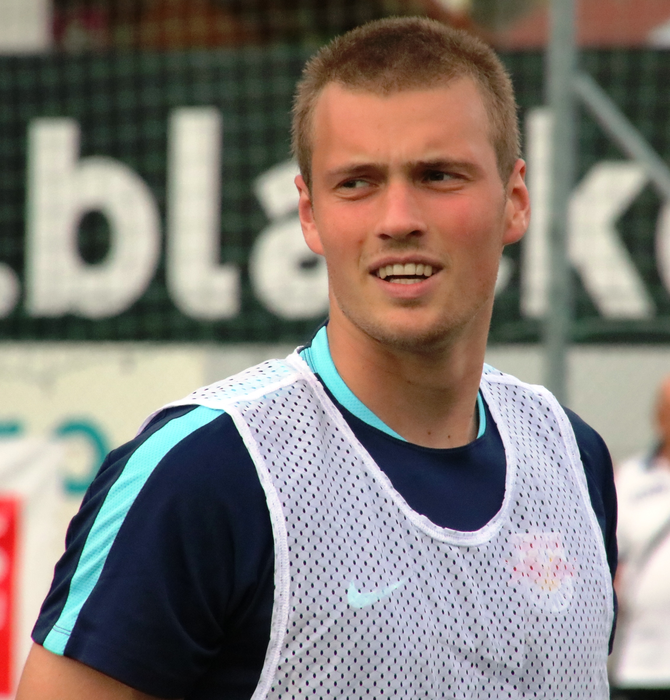 preseason match season 2016/17